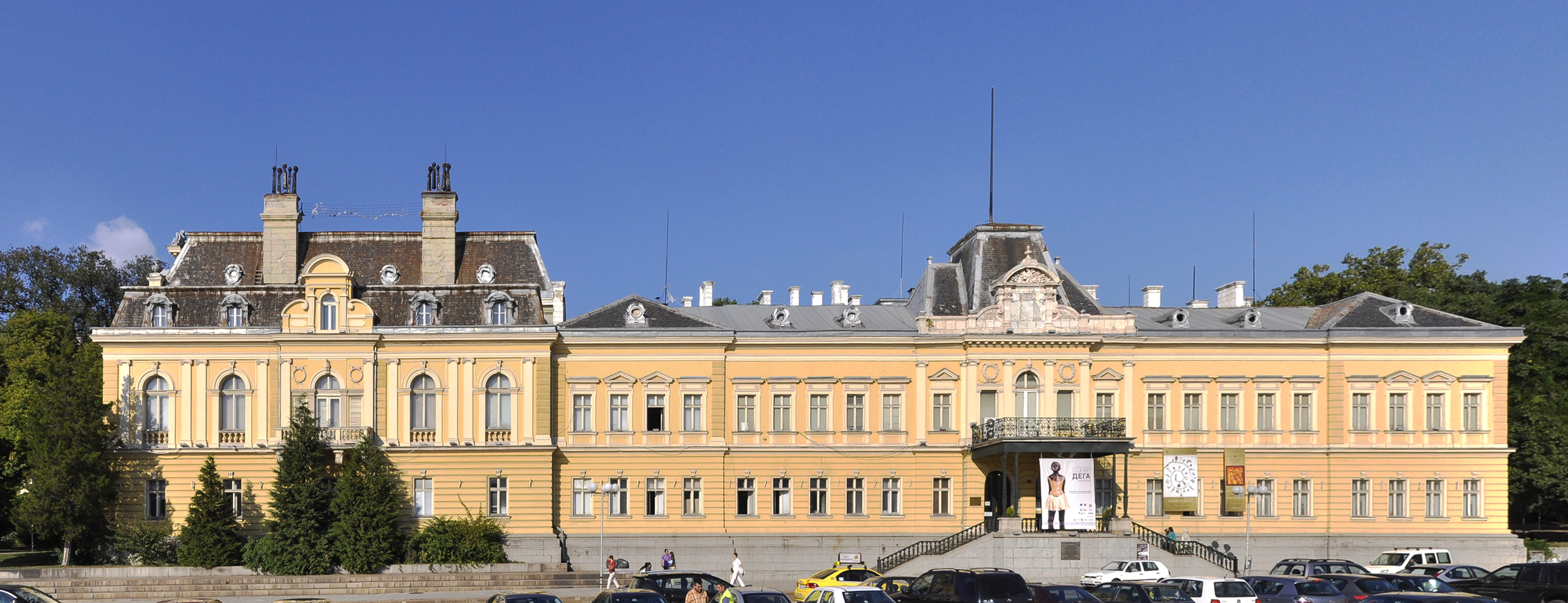 The former Royal Palace in Sofia, nowadays National Art Gallery. The building was constructed in two stages starting in 1880, during Knyaz Alexander Battenberg rule, under the design by the architect Viktor Rumpelmayer. Additional wing was added by the architect Friedrich Grünanger during Tsar Ferdinand I rule.